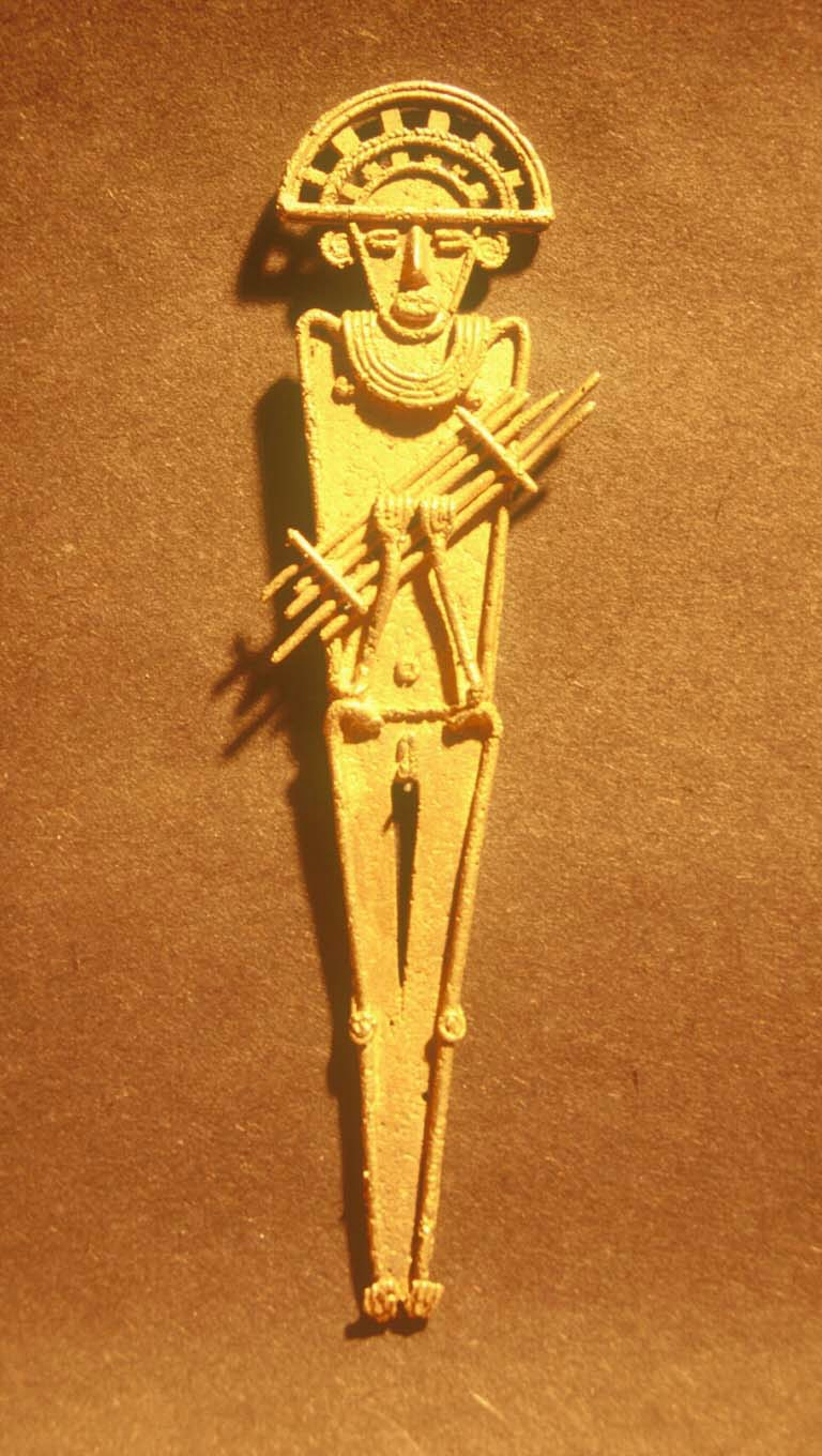 The earliest evidence of goldworking in the Western Hemisphere dates to around 2000 BC, when gold was first hammered into thin foil sheets in ancient Peru. But it was the goldsmiths of Colombia who had access to the largest veins of gold ore, which they extracted by "placer mining" (panning) and by building simple, vertical shaft mines. Gold was melted and worked in a variety of techniques, including hammering, often around a wooden form, and lost-wax casting (in which a wax model of an object is made and encased in clay, which is fired, causing the wax to melt and run out through a hole; molten gold is then poured into the hole and hardens, and the resulting figure is revealed when the clay mold is broken apart). Much ancient American gold is naturally alloyed, or mixed, with copper, with percentages of copper rising to as high as 70 percent. This material, called "tumbaga," often has a reddish color. Ancient Colombian metalworkers developed "depletion gilding" techniques, in which the copper was removed from the gold using organic acids. The most famous Muisca artifacts are "tunjos," human images cast using the lost-wax technique and left much rougher in surface texture than most ancient Colombian gold. The knowledge of goldworking spread from the central and northern Andes into Central America, and gradually a blend of techniques and imagery developed into what is known as the "International Style." Very little of this material survived the Spanish conquest.